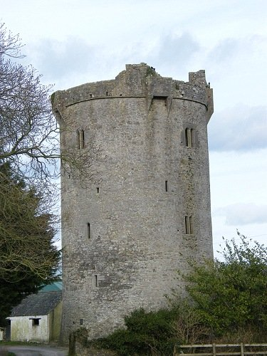 Ballynahow Castle 16th Century round castle with mural stairway and fireplaces on first and fourth floors. Stone ceilings on ground and third floors